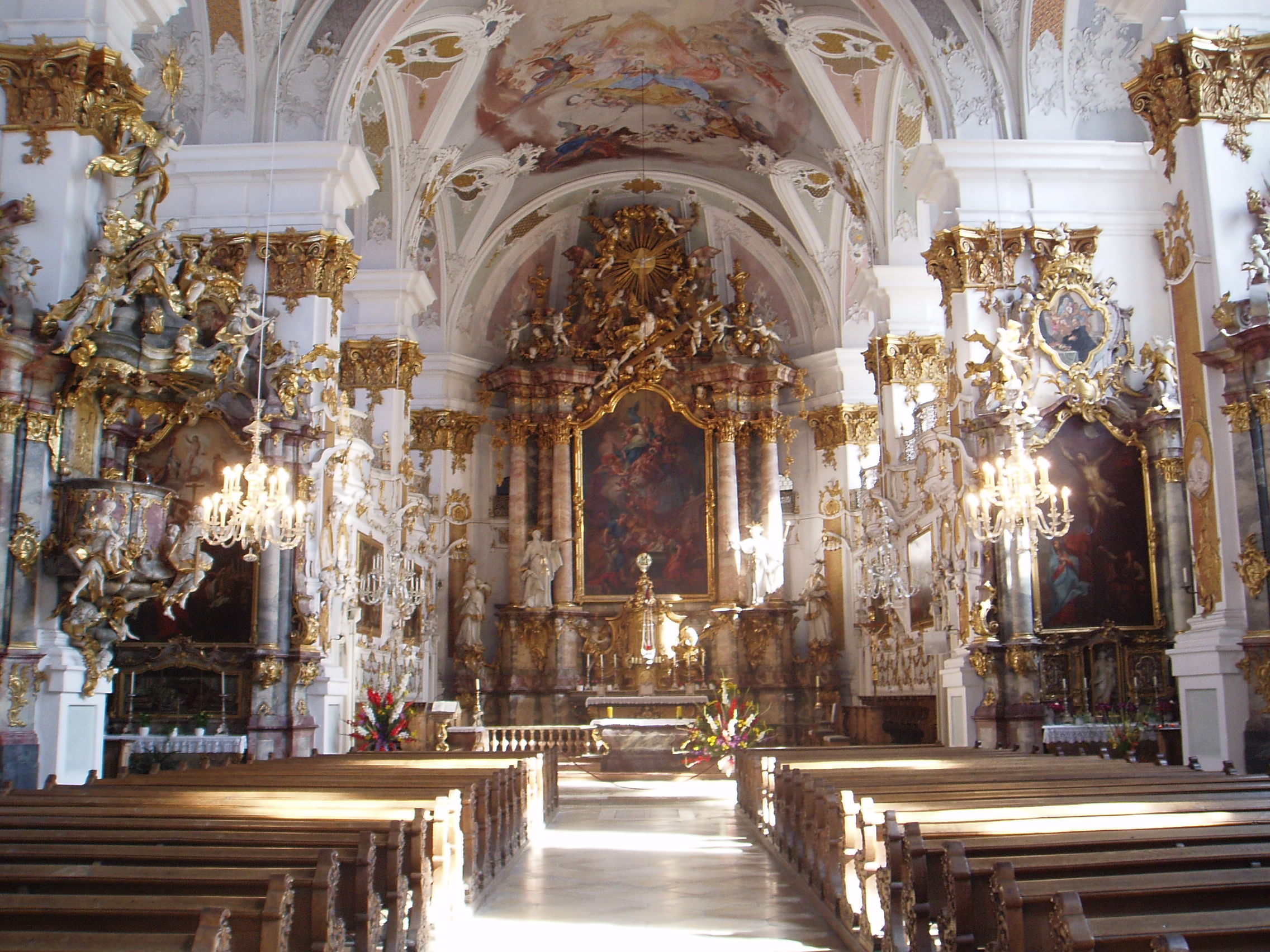 Dillingen an der Donau, interior view of the Church of the Assumption (Studienkirche) to east.